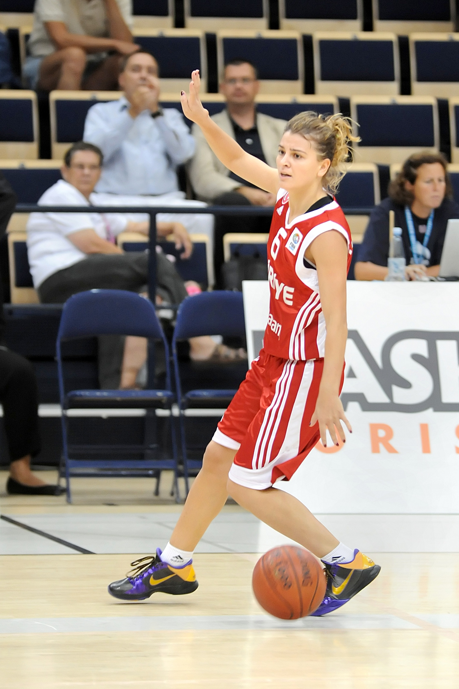 Turkish basketball player Birsel Vandarli in the game against Finland at Energia Areena in Vantaa, Finland.